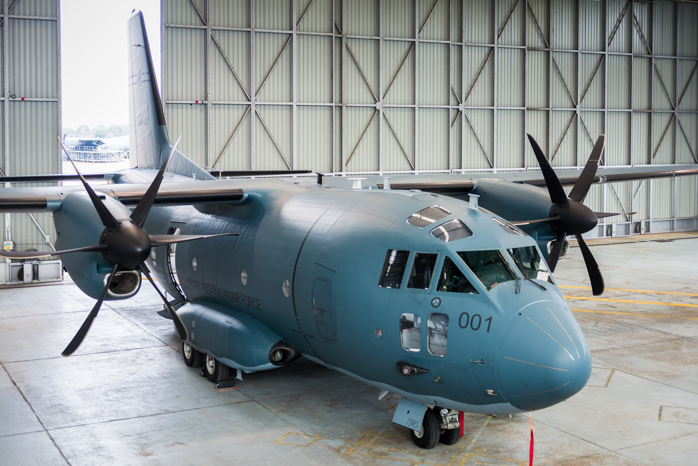 The Royal Australian Air Force first C-27J Spartan battlefield airlift aircraft on display following the welcome ceremony at RAAF Base Richmond on June 30, 2015